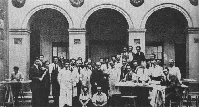 Genuys workshop in 1921